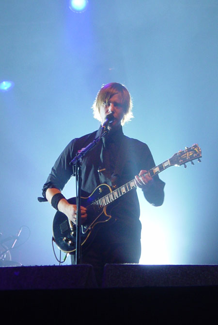 Photo of Interpol lead singer Paul Banks. I photographed him during their concert, at Roskilde Festival, Denmark in Juli 2005.